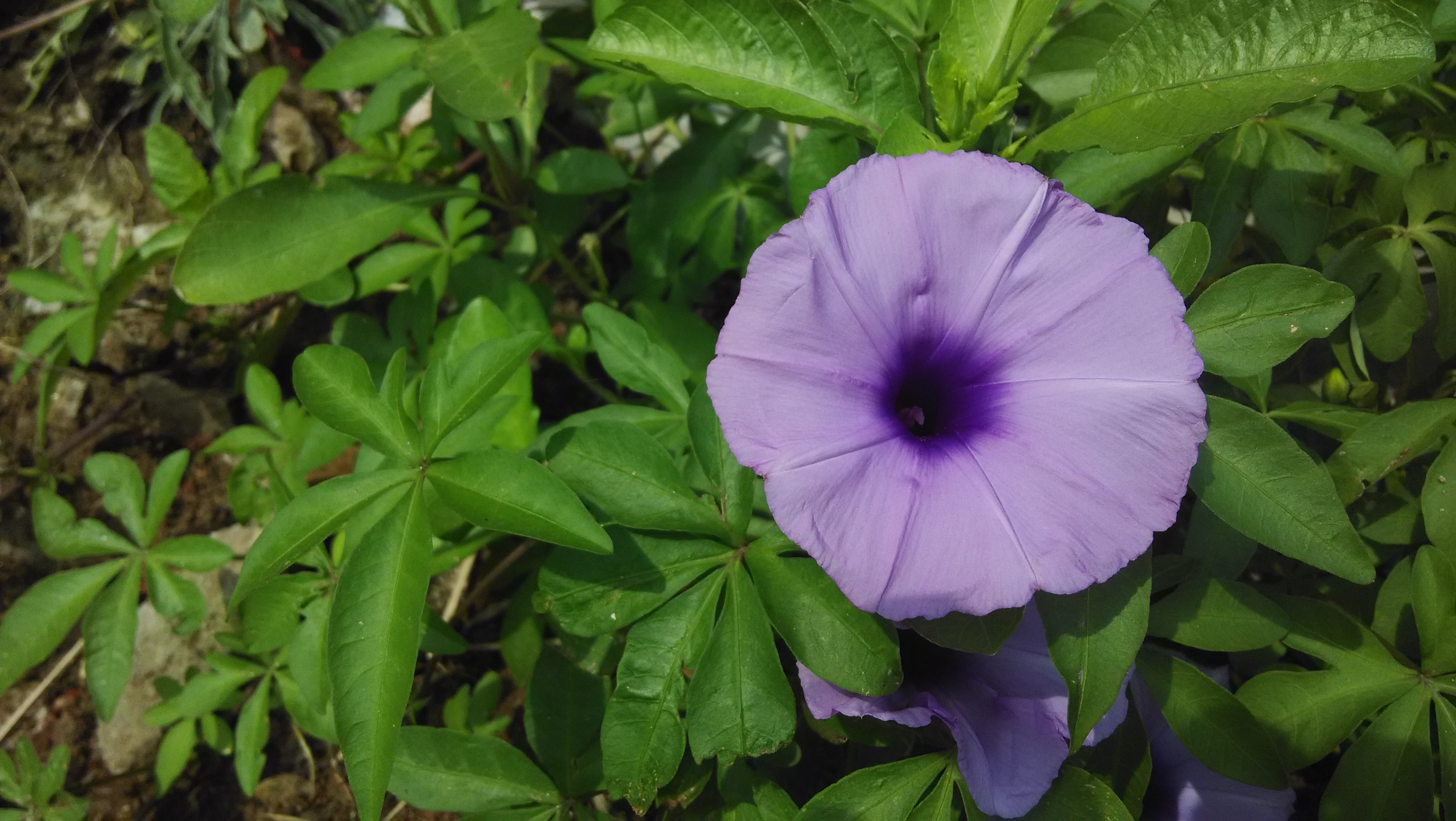 garden land weed with attractive flower